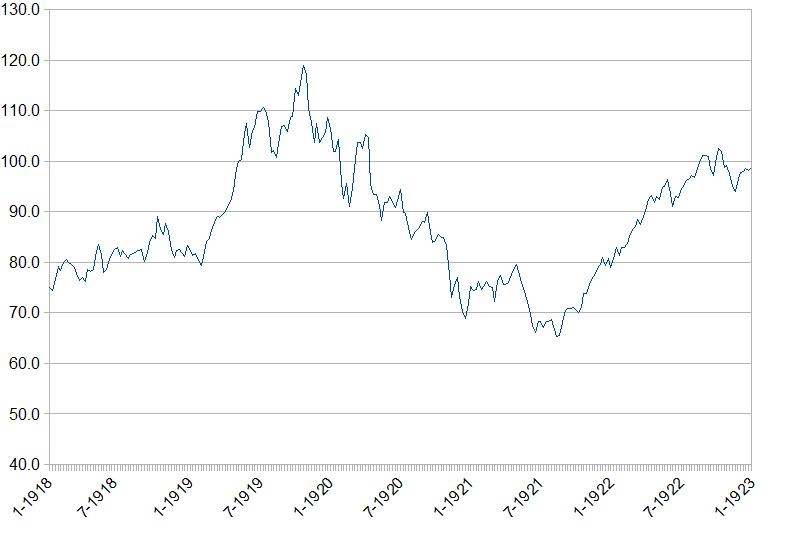 The Dow Jones Industrial Average weekly close from January 1918 to January 1923, including the bear market coinciding with the Recession of 1921